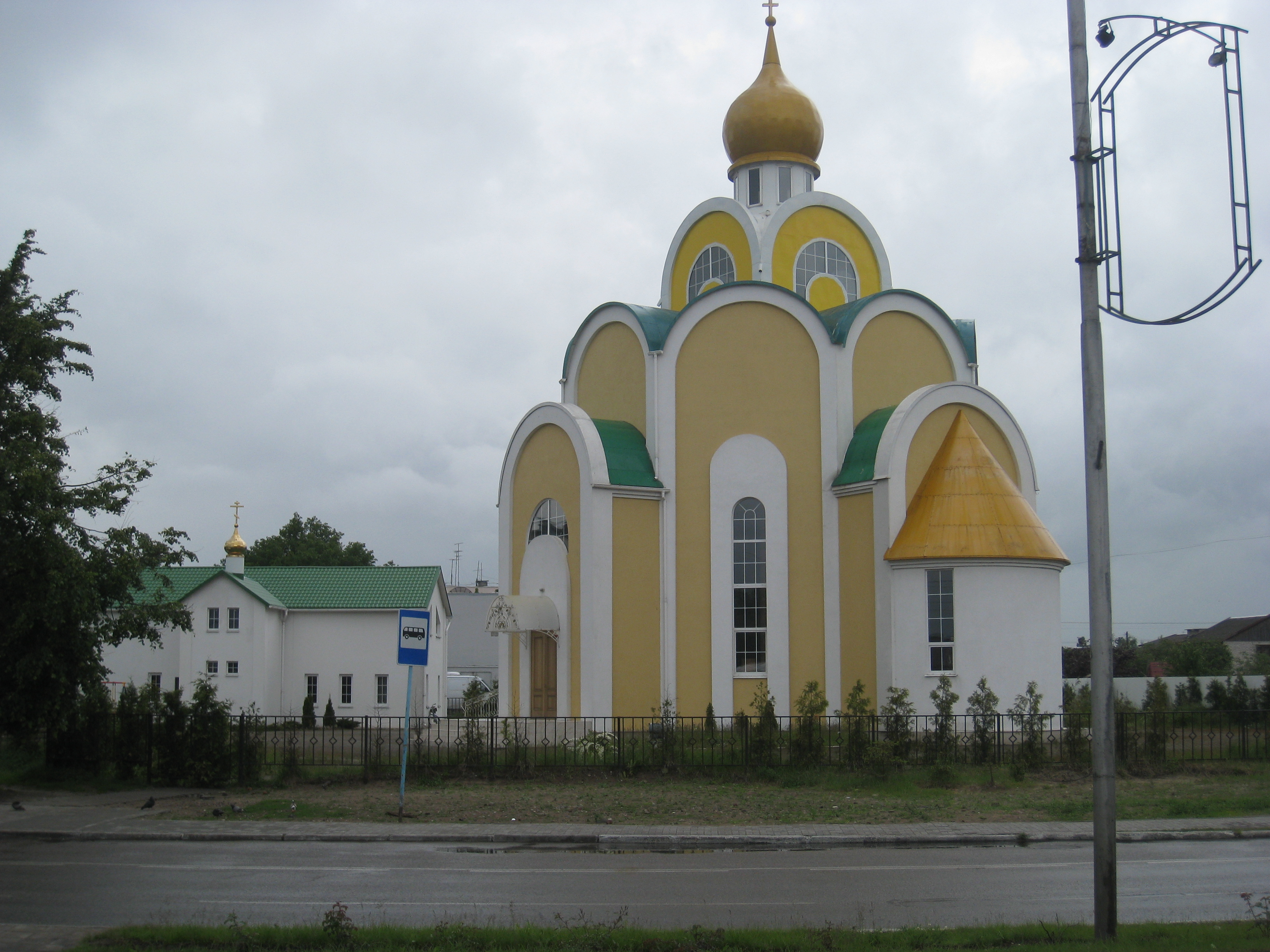 orthodox church